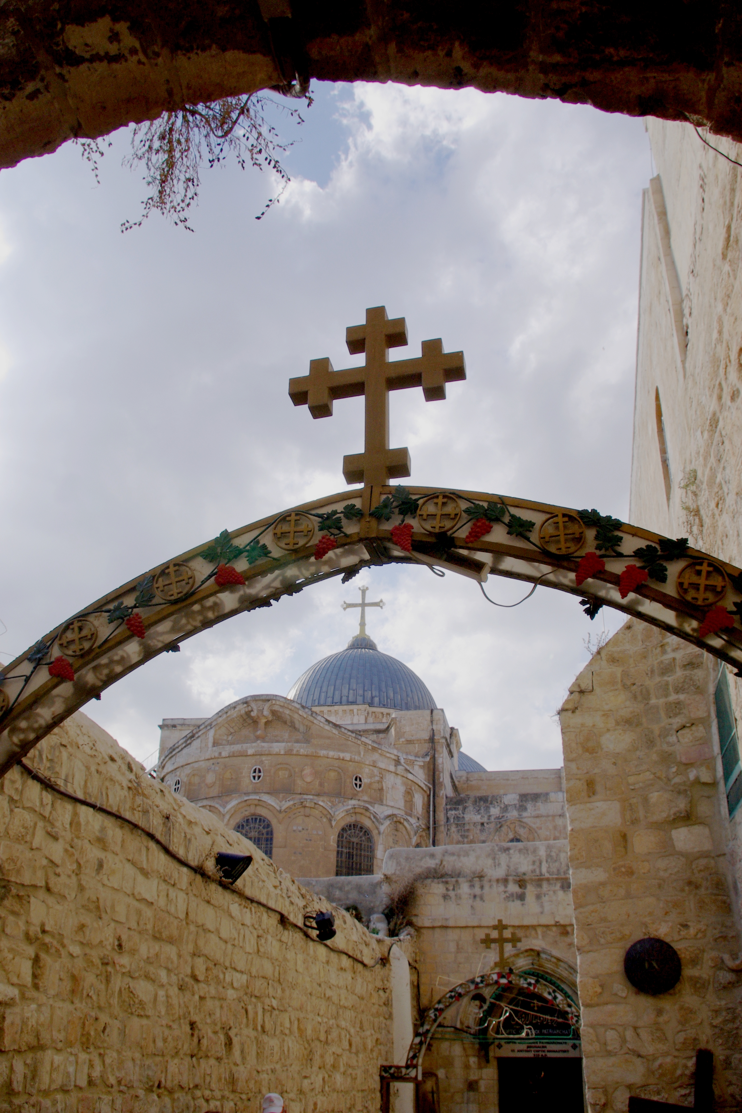 Jerusalem, Via Dolorosa, Station IX.